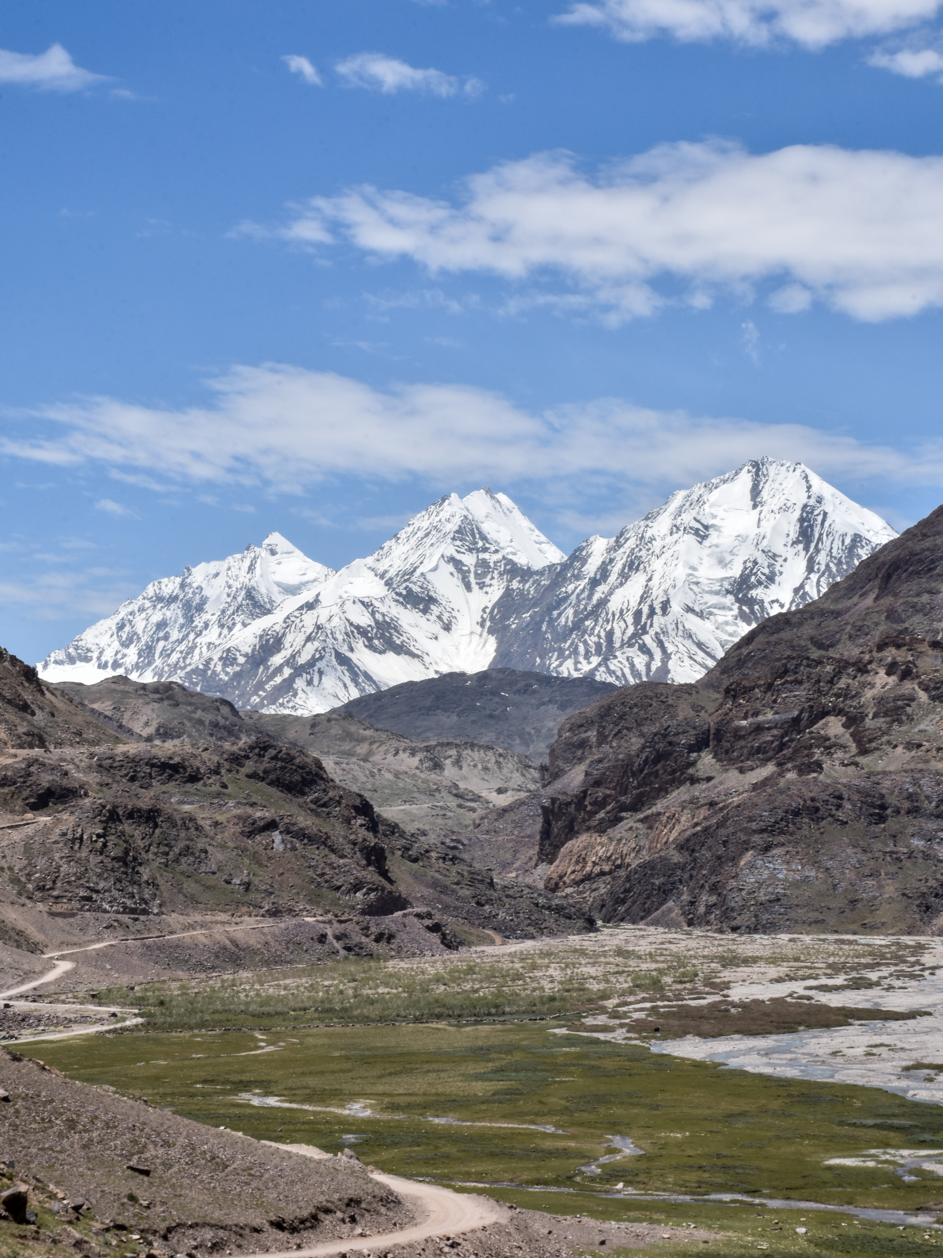 Road from Losar up to Kunzum La Pass, on the bank of a tributary of the Spiti River. Mountains near Chandra Taal beyond Kunzum Pass in the background. 23 June 2018